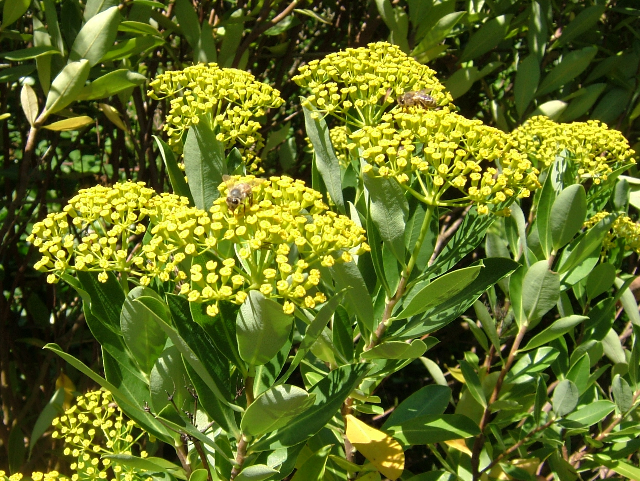 ADD SPECIES HERE Botanical Garden Meran Sun Gardens